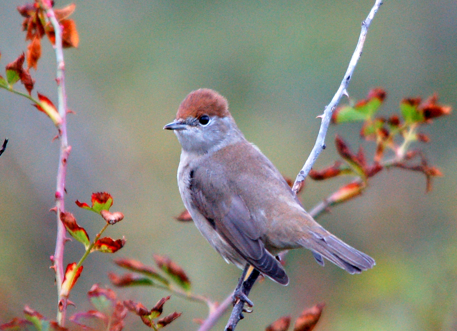 Blackcap (Sylvia atricapilla), Mølen, Norway